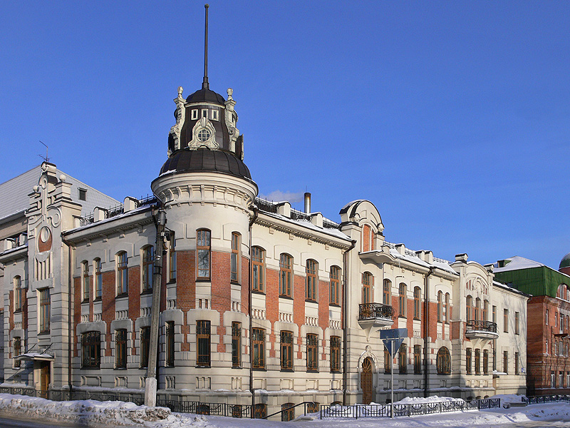 Barnaul, Yakovlev-Polyakov House (ul. Gorkogo 50), built in 1911-12.